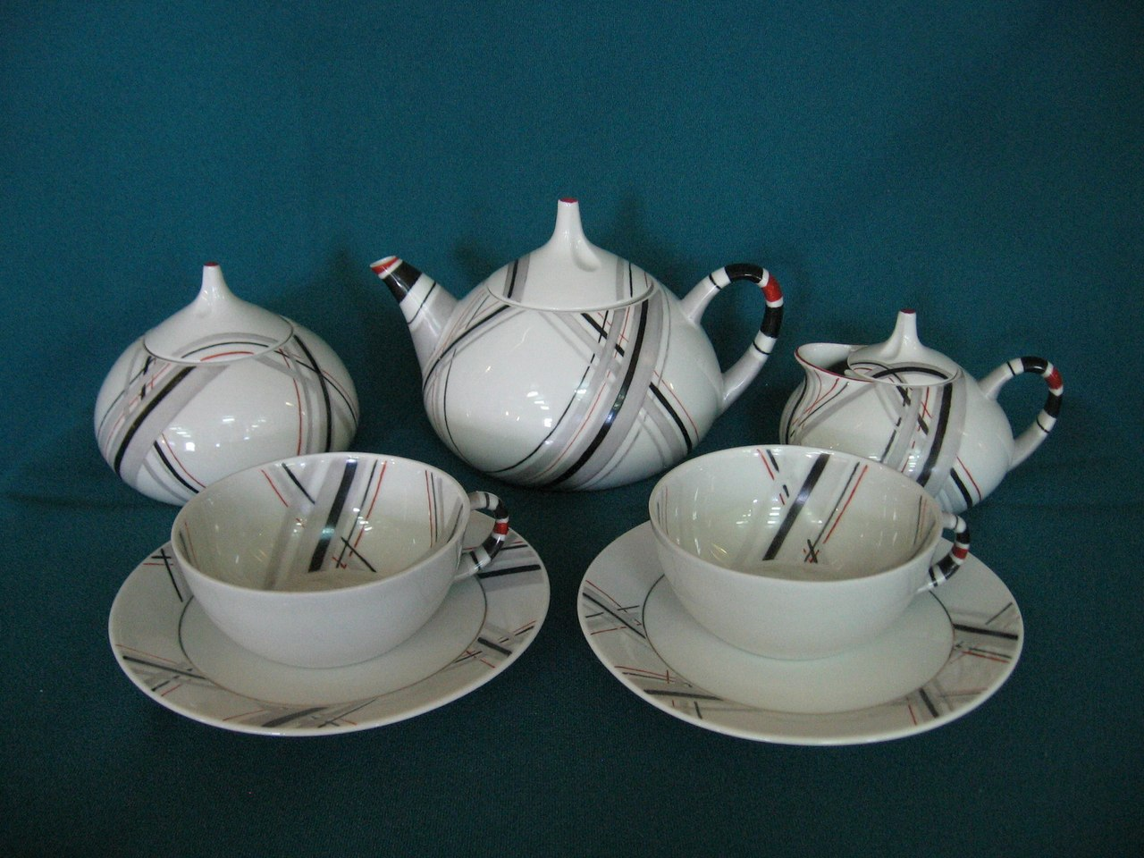 Porcelain tea set «Lukovka». 1960. Porcelain Factory «Red farforist» (Chudovo, Novgorod region. USSR). Porcelain of the soviet sculptor Bronislav Bystrushkin (1926-1977). Lomonosov's Porcelain Factory, Leningrad, USSR.